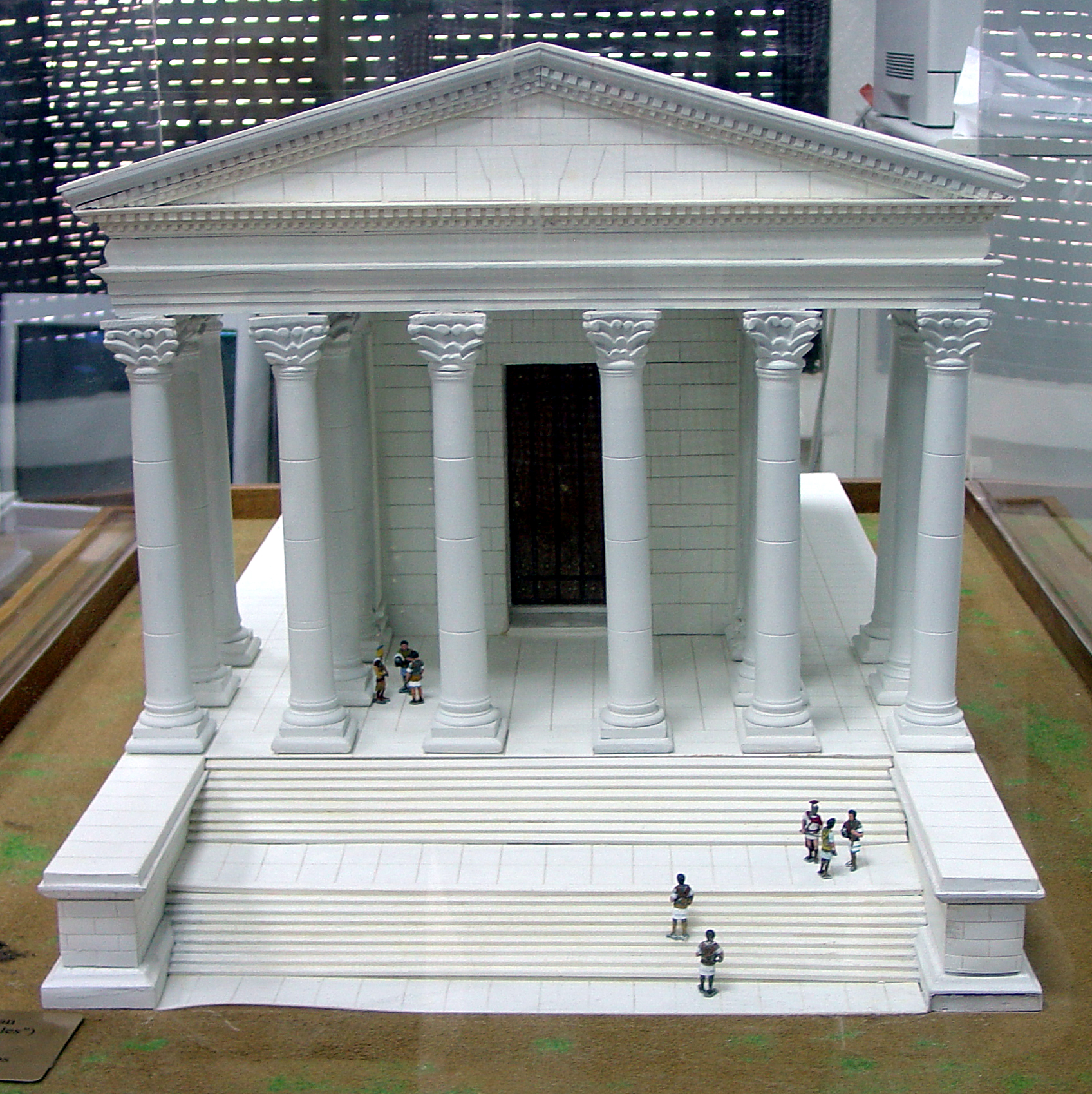 Model of the Temple of Hercules (Amman). The actual temple is on Amman's Citadel. The model is displayed at the American Center of Oriental Research (ACOR), Amman.